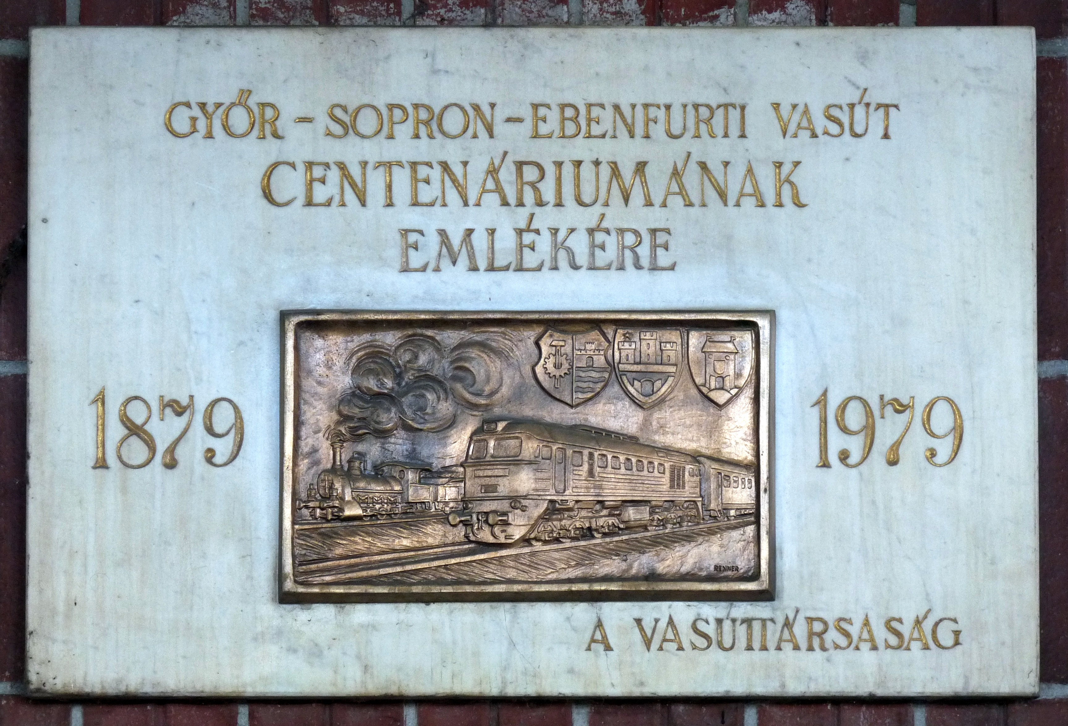 Plaque commemorating the centenary of the railway company Raaberbahn (GySEV) affixed to the wall of the main building of the Sopron Train Station. The bronze relief was sculpted by Mr. Kálmán Renner in 1979. (No 2 Állomás Street, Sopron)